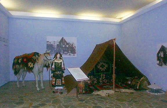 The tsiatoura, the temporary shelter the Sarakatsani, image from the Sarakatsan Folklore Museum, Serres, Central Macedonia, Greece